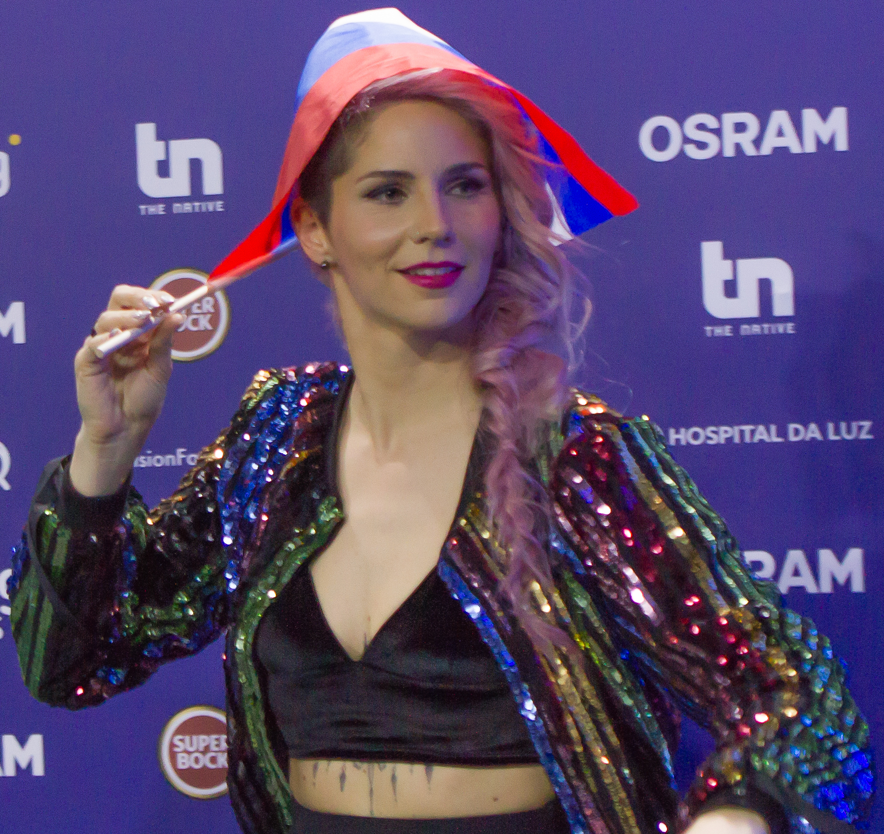 At the 2018 Semi Final 2 qualifiers press conference